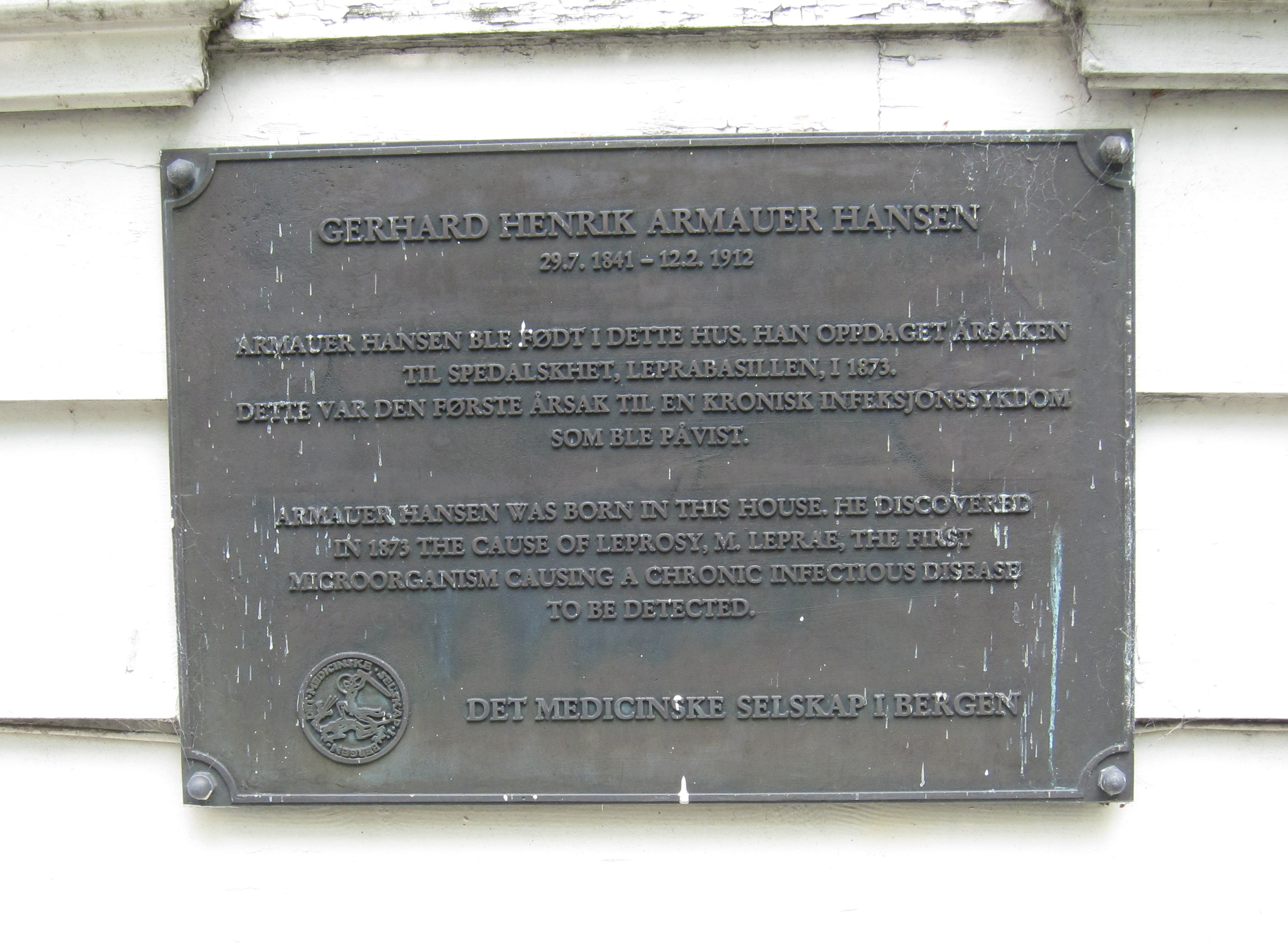 Gerhard Armauer Hansen, plaque on wall of his first residence in Bergen